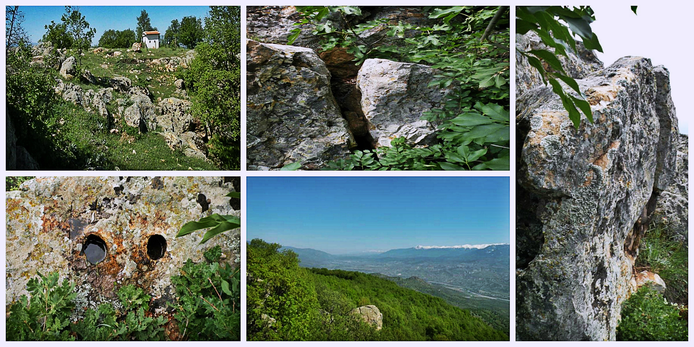 Sveti Spas Church and sanctuary Krastiltsi Village BG